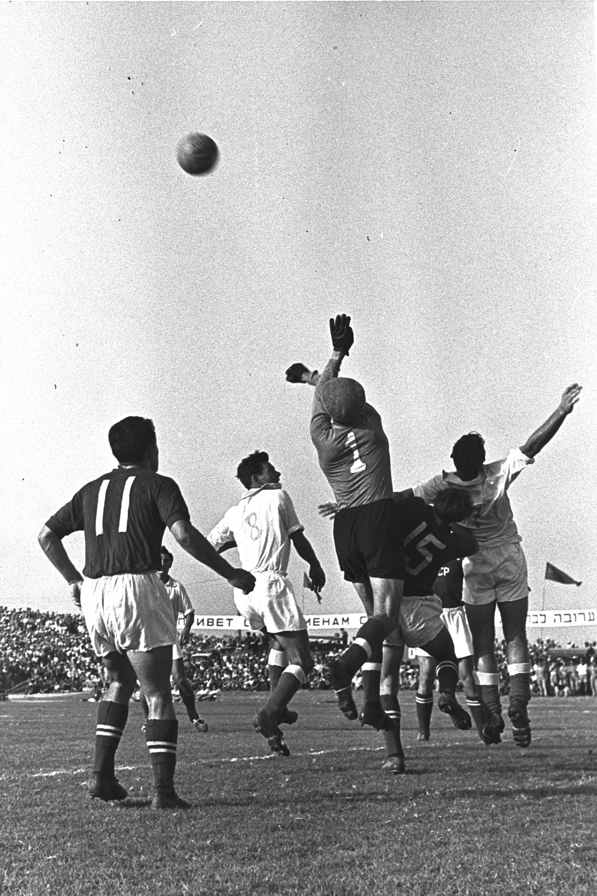 A tense moment in the Israel-Russia soccer game held at Ramat Gan Stadium. רגע מותח במשחק הכדורגל בין ישראל ורוסיה באיצטדיון רמת גן Photo: Hans Pinn (1916–1978) Alternative names הנס פין; פין, חיים; פין, הנס; פין, ה. חיים; Hans Chaim Pinn; Pinn, Hans H; Pinn, H. Hayim; Pin, H. Ḥayim; Fin, H. Ḥayim; Hans H. Pinn; H. Ḥayim Pin; Piyn, Ḥayyim; Pinn, ChaimDescriptionIsraeli photographerDate of birth/death 16 November 1916 30 May 1978 / 13 May 1978Location of birth/death Berlin HerzliyaAuthority control : Q16129161 VIAF: 51249035 ISNI: 0000 0001 1234 9240 ULAN: 500479725 LCCN: no90017900 Open Library: OL6752235A WorldCat creator QS:P170,Q16129161 , 07/31/1956